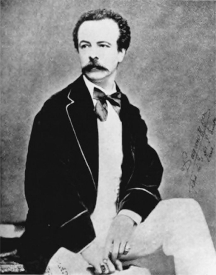 Charles Frederick Worth (1825–1895)